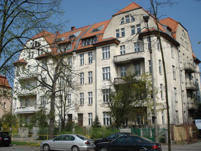 House 28-30 Mickiewicza street in Toruń, the right part was a seat of the Music School, ca. 1945-1990